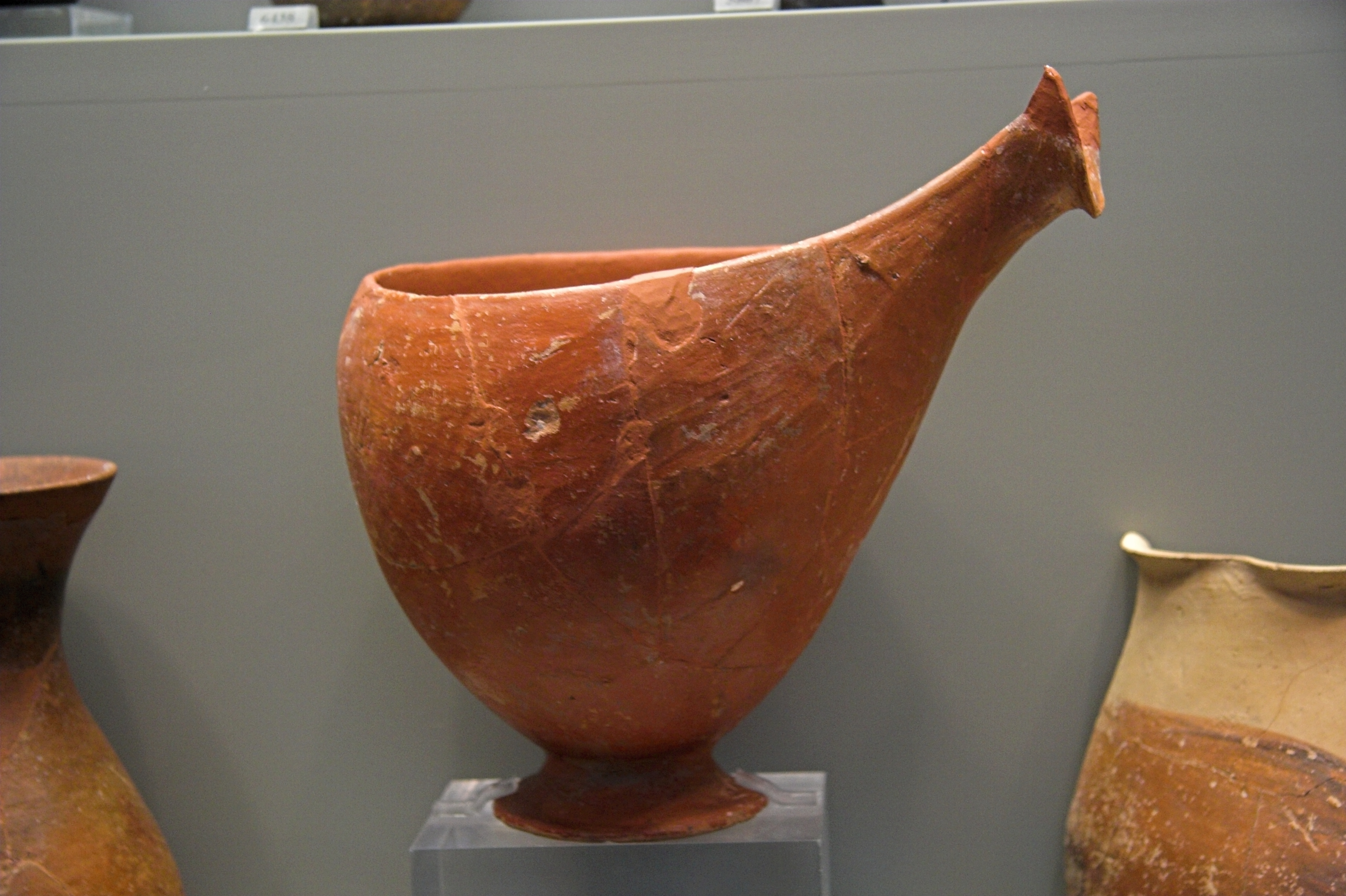 Thin-walled vessel with a long spout. Orchomenos (?), Early Bronze Age, 2700-2100 BC. National Archaeological Museum of Athens.